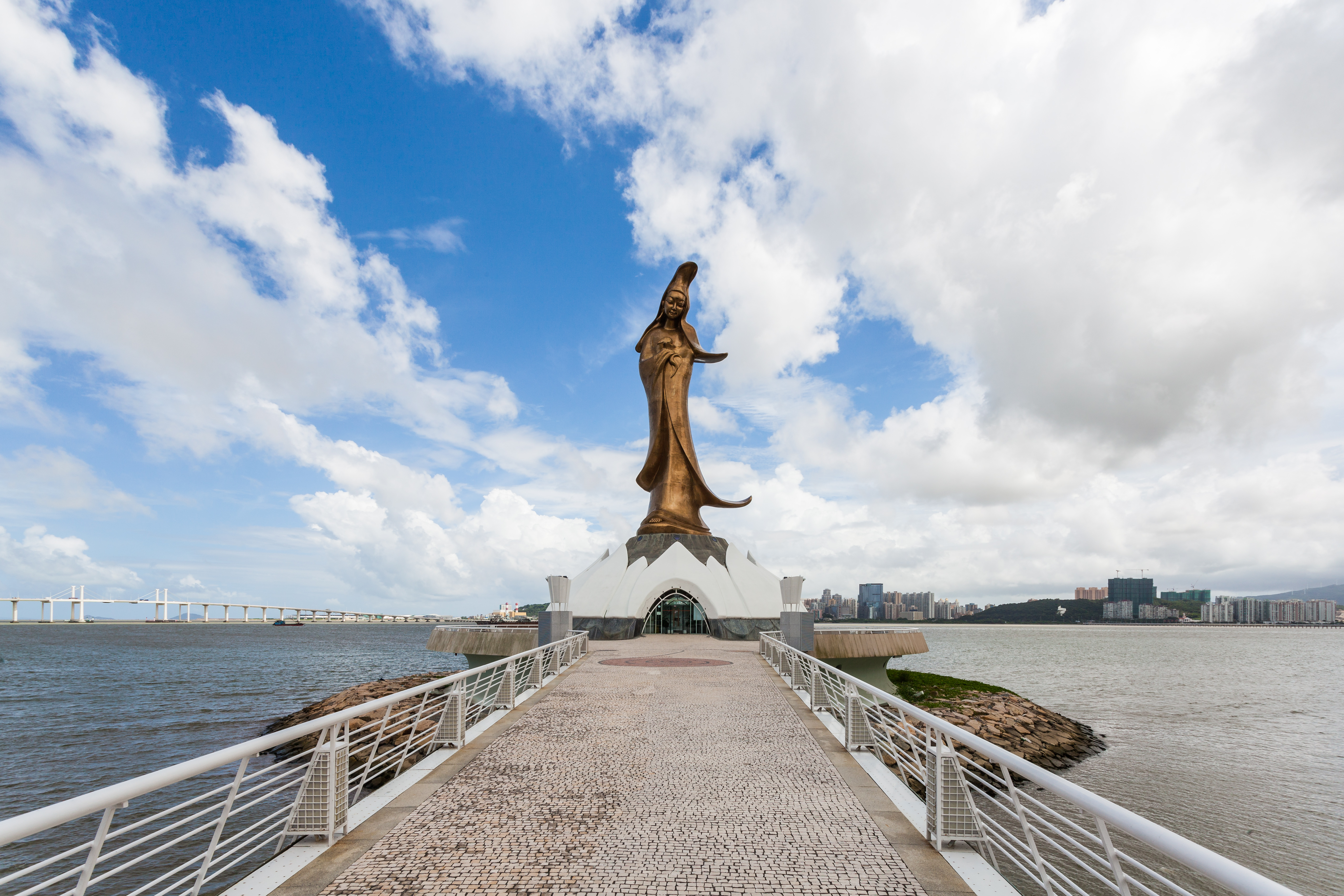 Guan Yin Statue, Macau